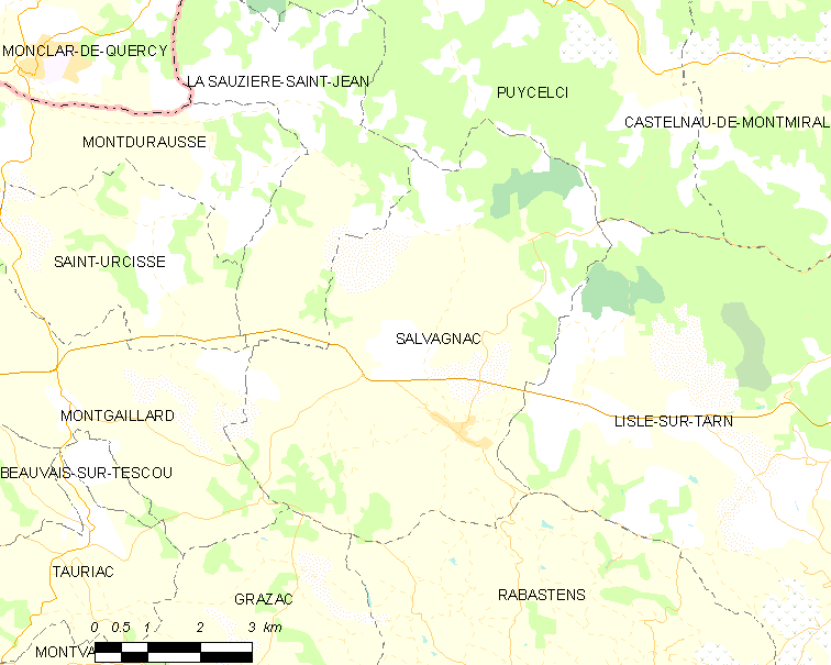 Map of French municipality Salvagnac